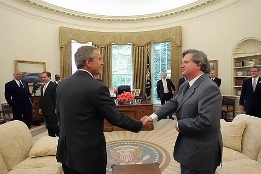 George Bush & David Oddsson